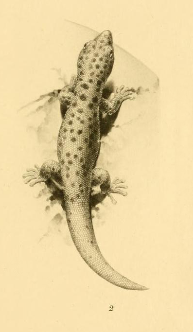 Illustration of Sphaerodactylus nigropunctatus gibbus specimen from Exhuma Cays, Stocky Island, the Bahamas (identified as S. gibbus). Barbour, Thomas (1921). "Sphaerodactylus." Mem. Mus. Comp. Zool. 47:3, Pl. 1, Fig. 2.